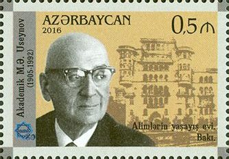 The 80th Anniversary of the Union of Architects of Azerbaijan. N 1256 - 50 qapik. There are pictured Mikael Useynov and House of scientists in Baku on the stamps.